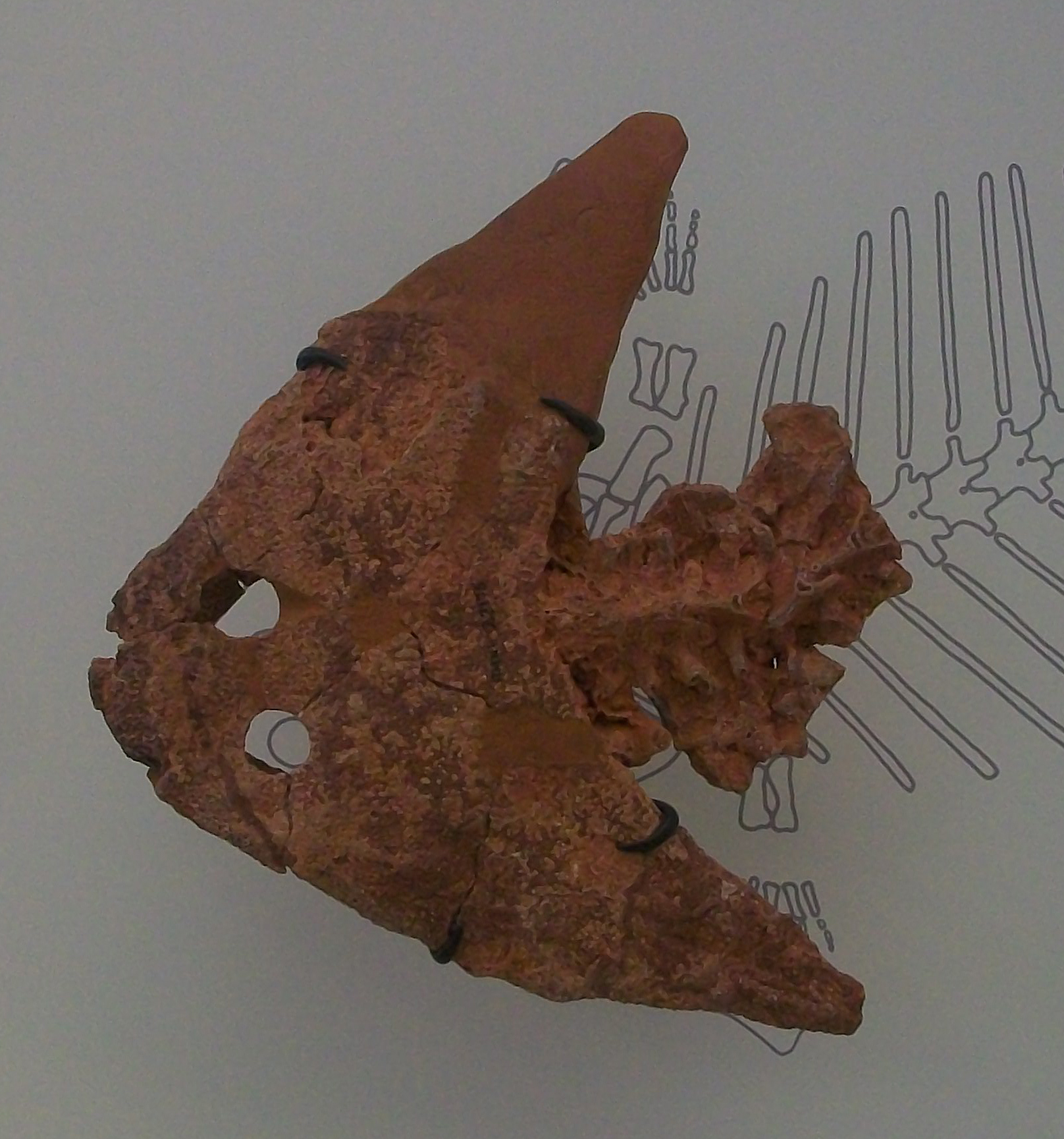 Skull of Diplocaulus magnicornis (specimen AMNH 23175) in the American Museum of Natural History.